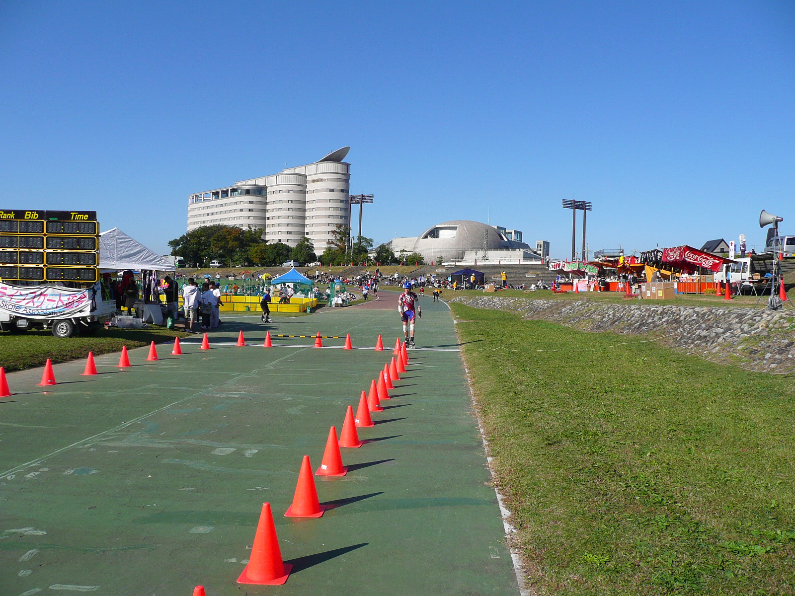 A picture of the Nagaragawa International Inline Skating Competition in Gifu, Gifu Prefecture.